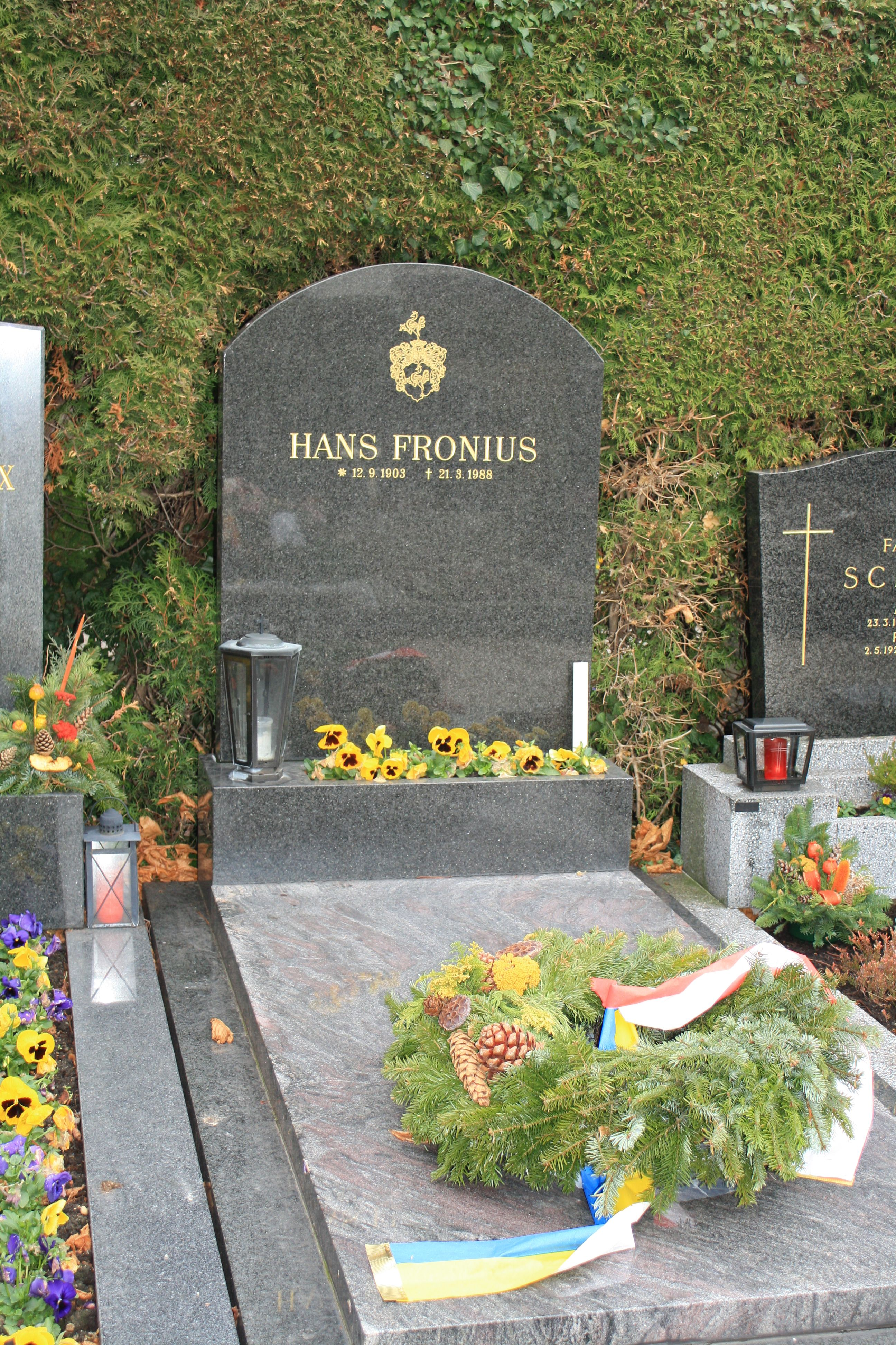 Cemetery in Perchtoldsdorf in Lower Austria